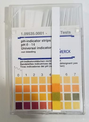 ph indicator strip